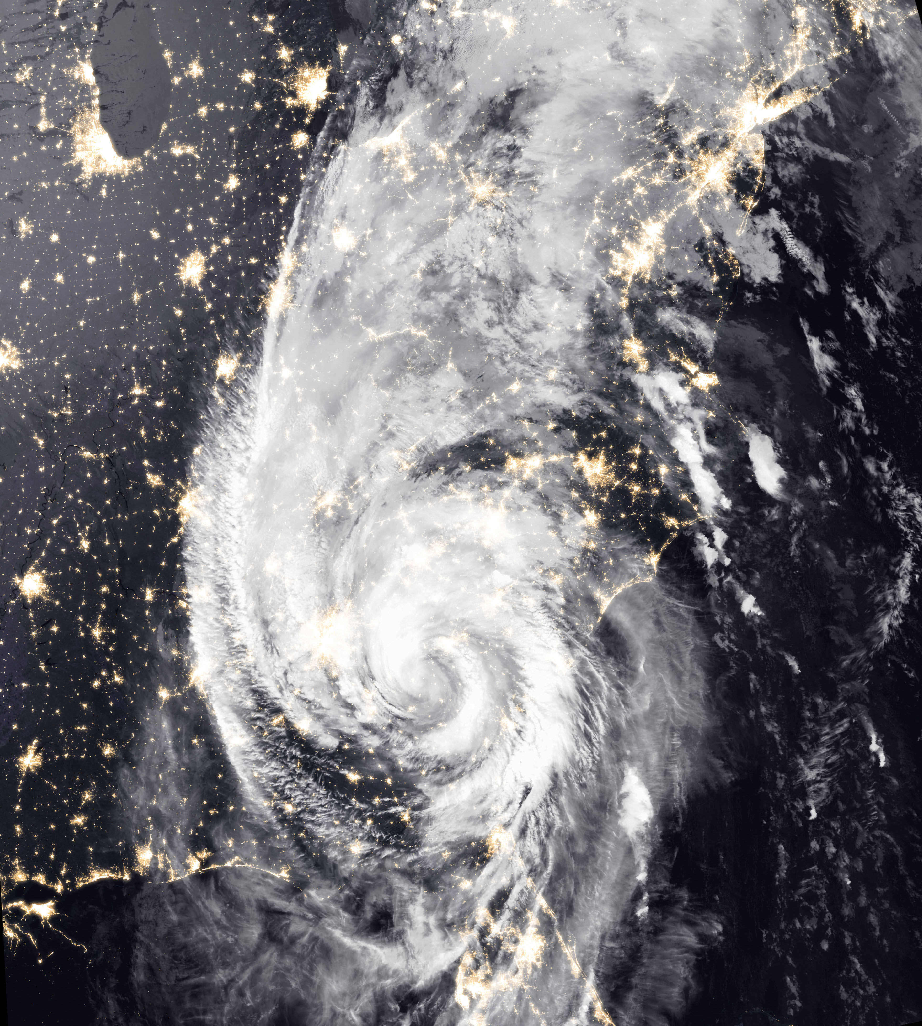 Since making landfall, the storm has caused severe property damage and deaths in the southeastern United States, with more damage expected. The category 4 hurricane weakened throughout Oct. 10 and was downgraded to a tropical storm by Oct. 11. The Visible Infrared Imaging Radiometer Suite (VIIRS) on the Suomi NPP satellite acquired data for the composite image below in the early morning hours of Oct. 11, as the storm passed over Georgia and South Carolina. The false-color image shows infrared signals known as brightness temperature, which helps distinguish the shape and temperature of the clouds. The image was overlaid on data from the VIIRS “day-night band.” NASA Earth Observatory image by Joshua Stevens, using VIIRS data from the Suomi National Polar-orbiting Partnership Credit: NASA/Goddard/Suomi NPP — VIIRS NASA image use policy. NASA Goddard Space Flight Center enables NASA’s mission through four scientific endeavors: Earth Science, Heliophysics, Solar System Exploration, and Astrophysics. Goddard plays a leading role in NASA’s accomplishments by contributing compelling scientific knowledge to advance the Agency’s mission. Follow us on Twitter Like us on Facebook Find us on Instagram